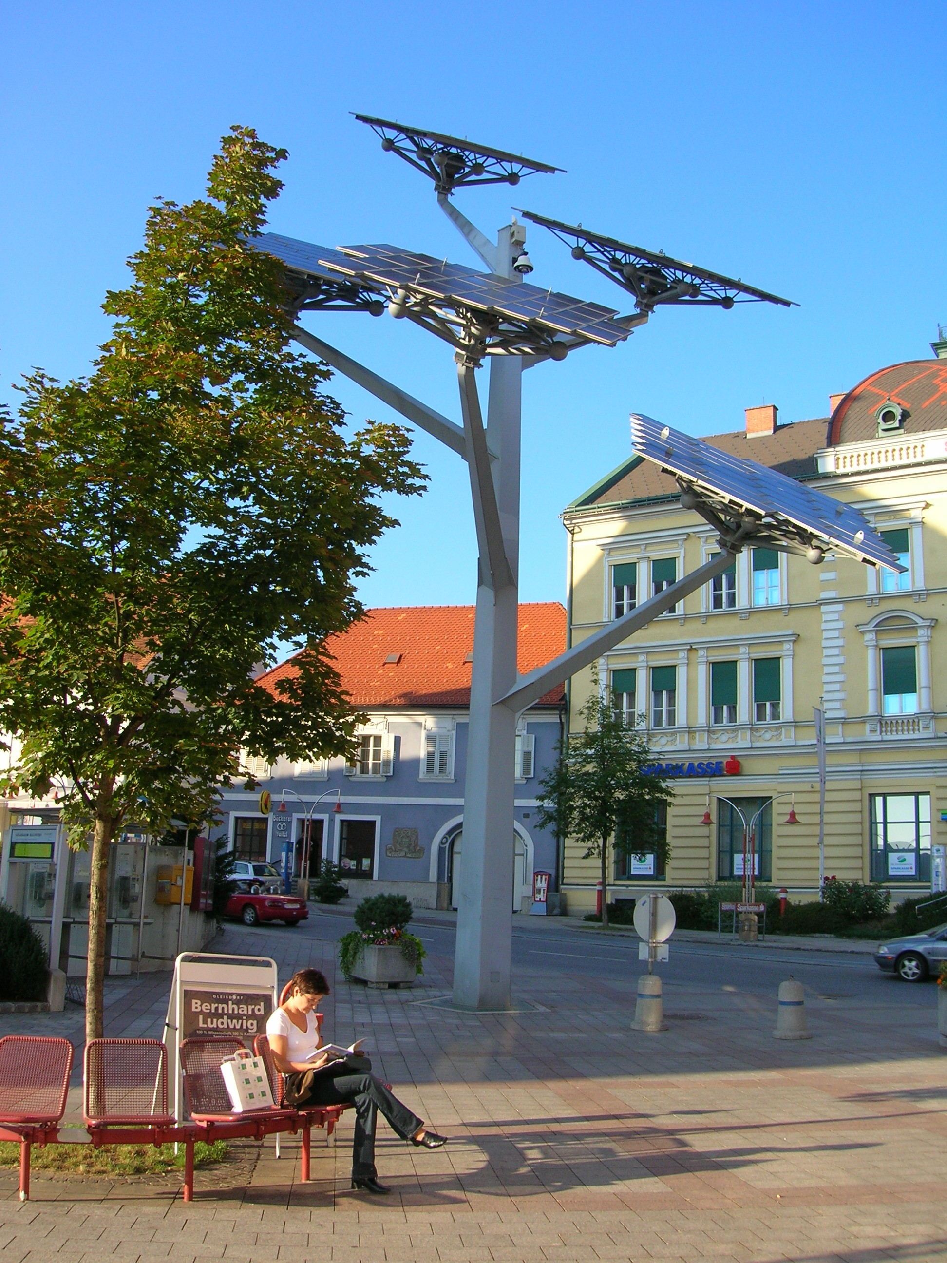 The "solar tree", a symbol of Gleisdorf